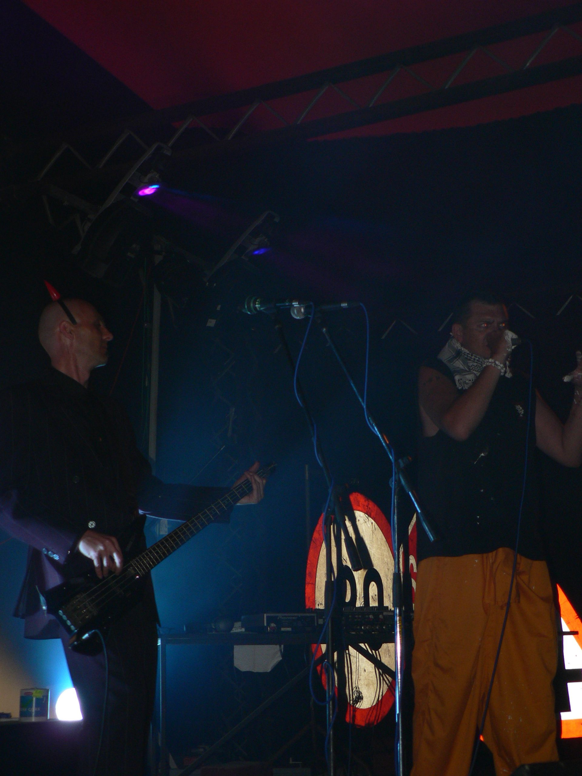 Battery 9 performing live during the Woordfees in Stellenbosch